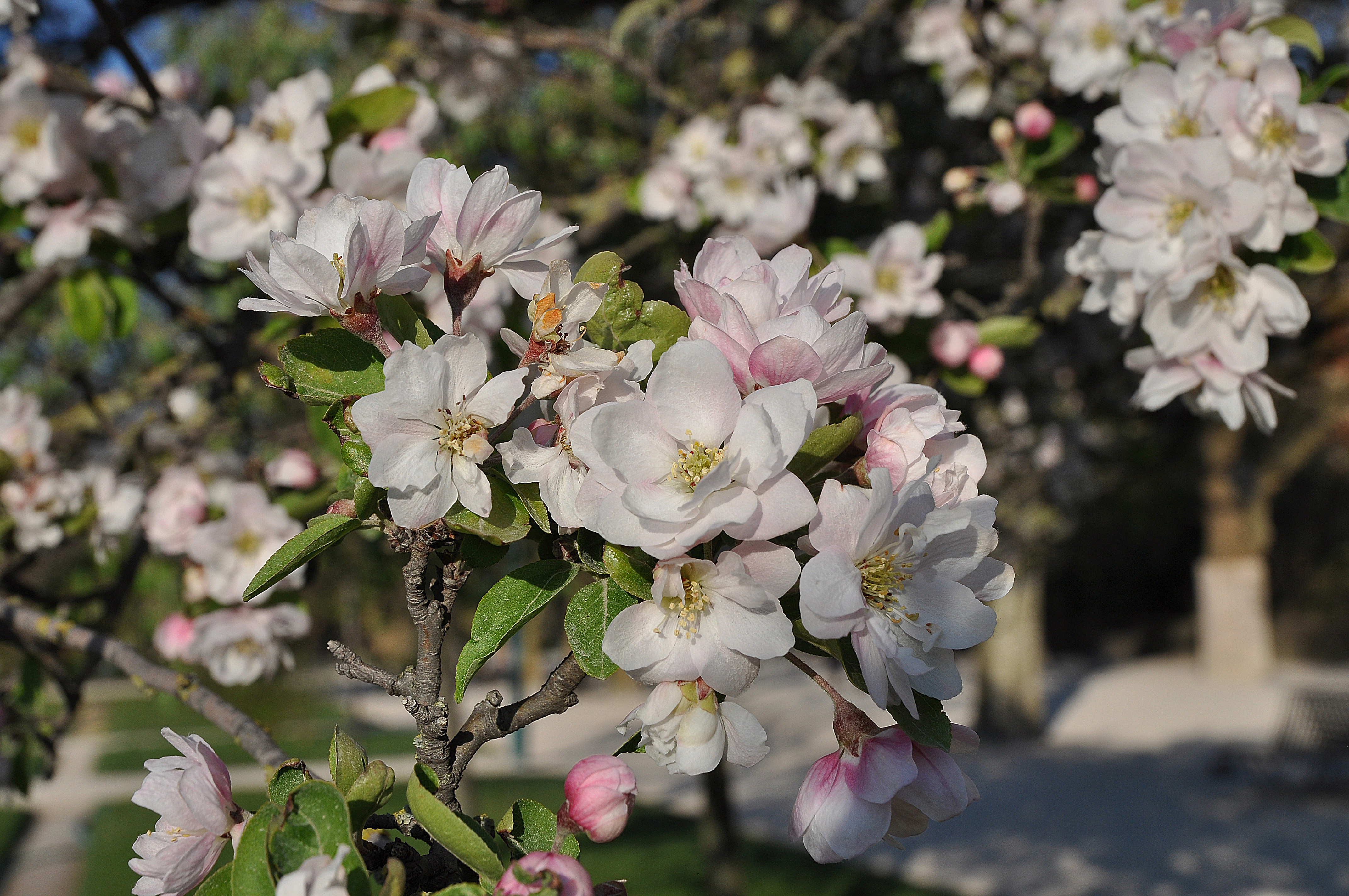 Blossom of Asiatic apple Malus spectabilis in the Jardin des Plantes, 5th arrondissement of Paris.